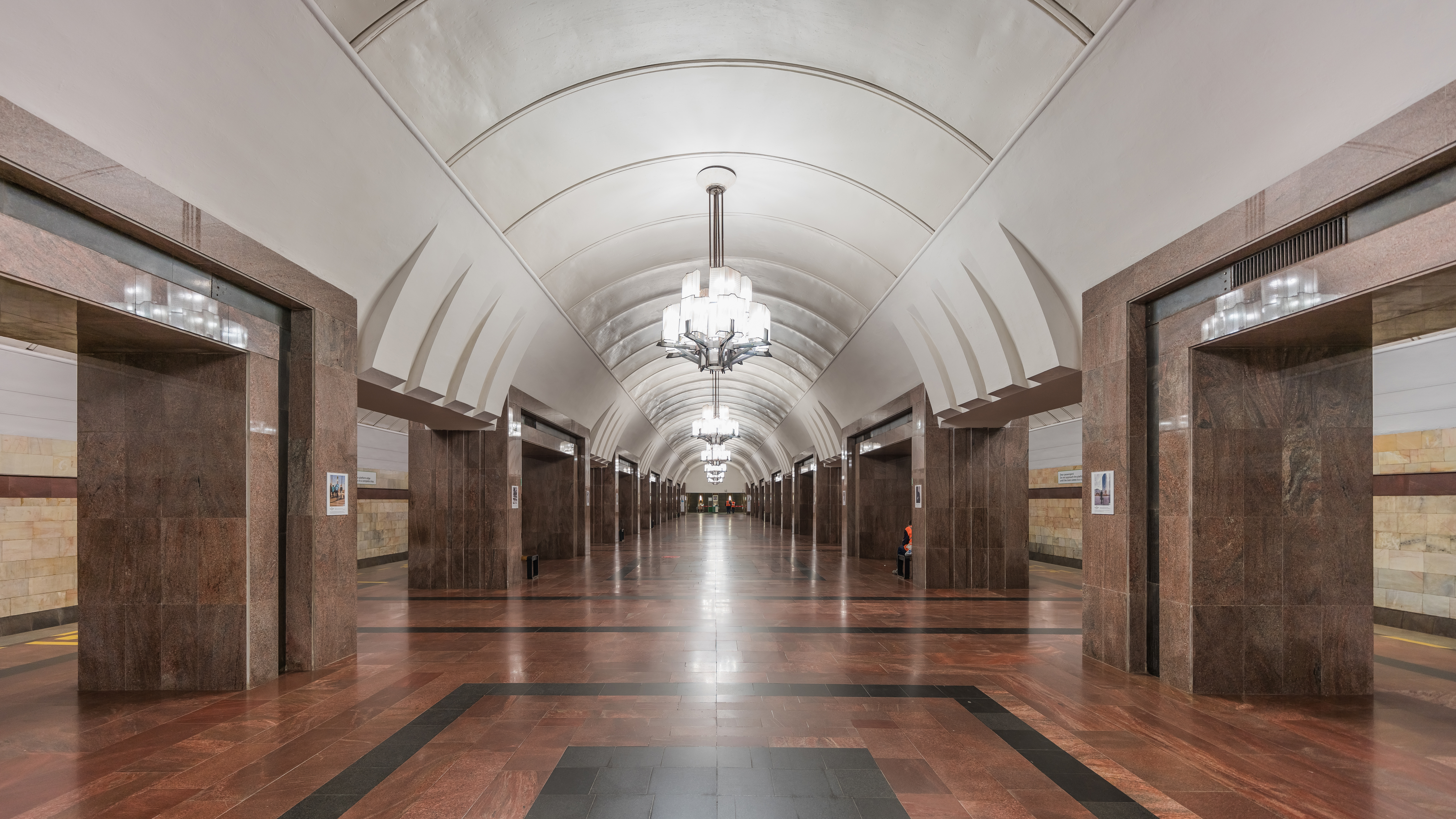 Square of Year 1905 metro station in Ekaterinburg, Russia